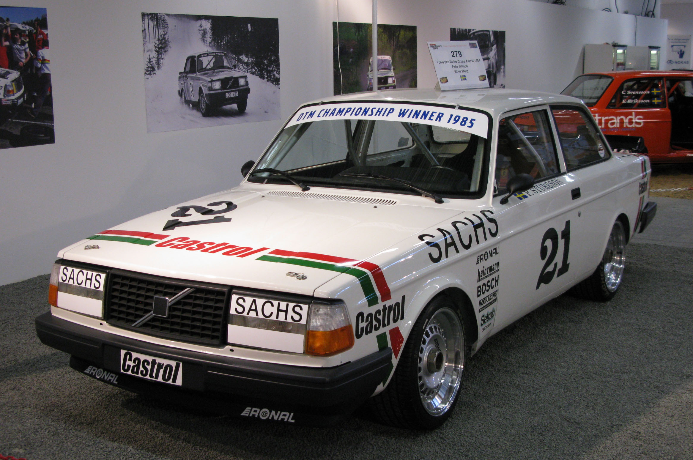 Location: Elmia Custom Motorshow, Jönköping, Sweden